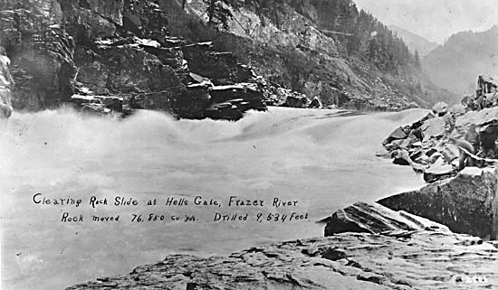 Clearing rock slide at Hell's Gate, Fraser River. Annotation on photograph reads "rock moved 76,850 cu. yds. Drilled 9,534 feet."